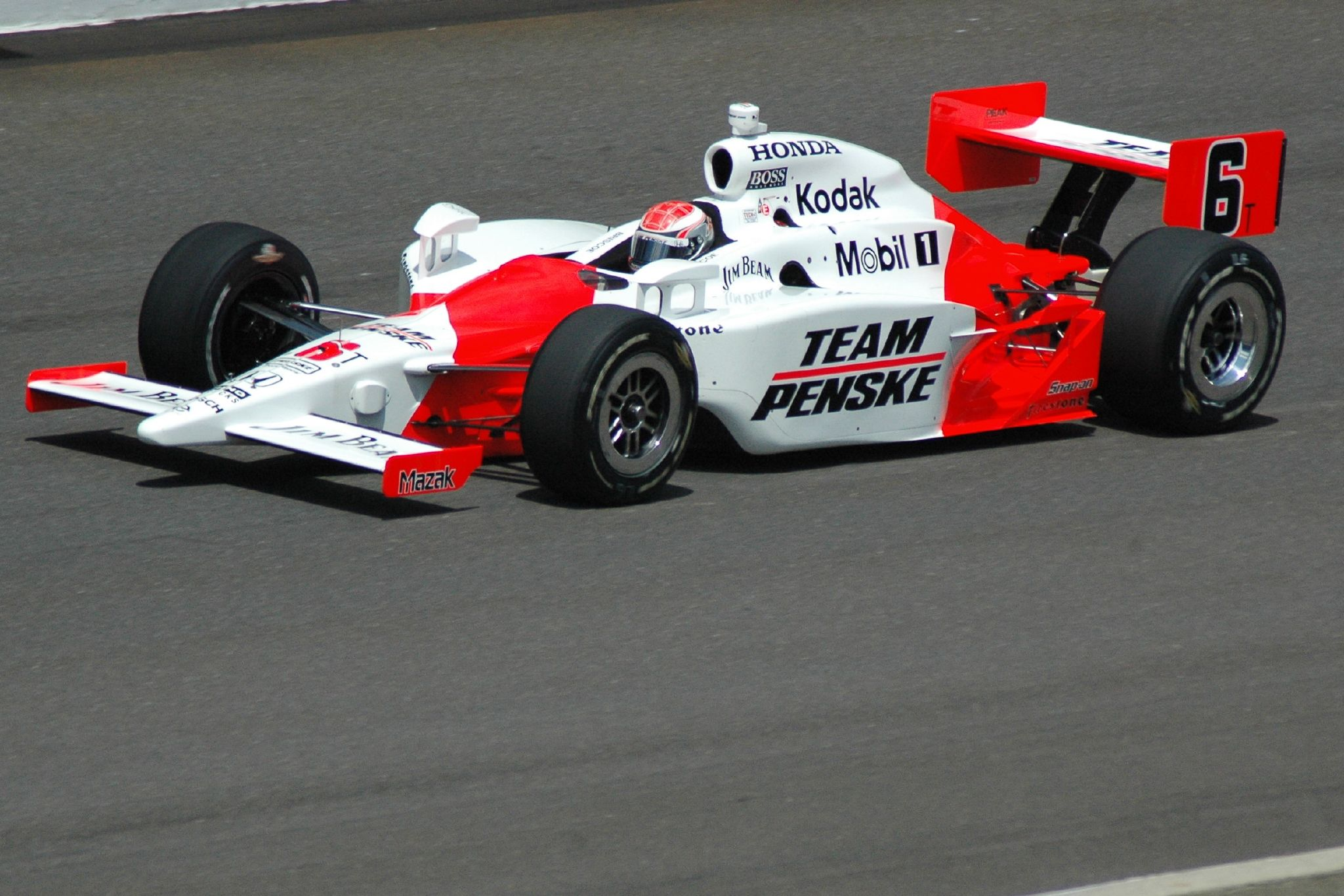 Ryan Briscoe at Indianapolis 500 practice.